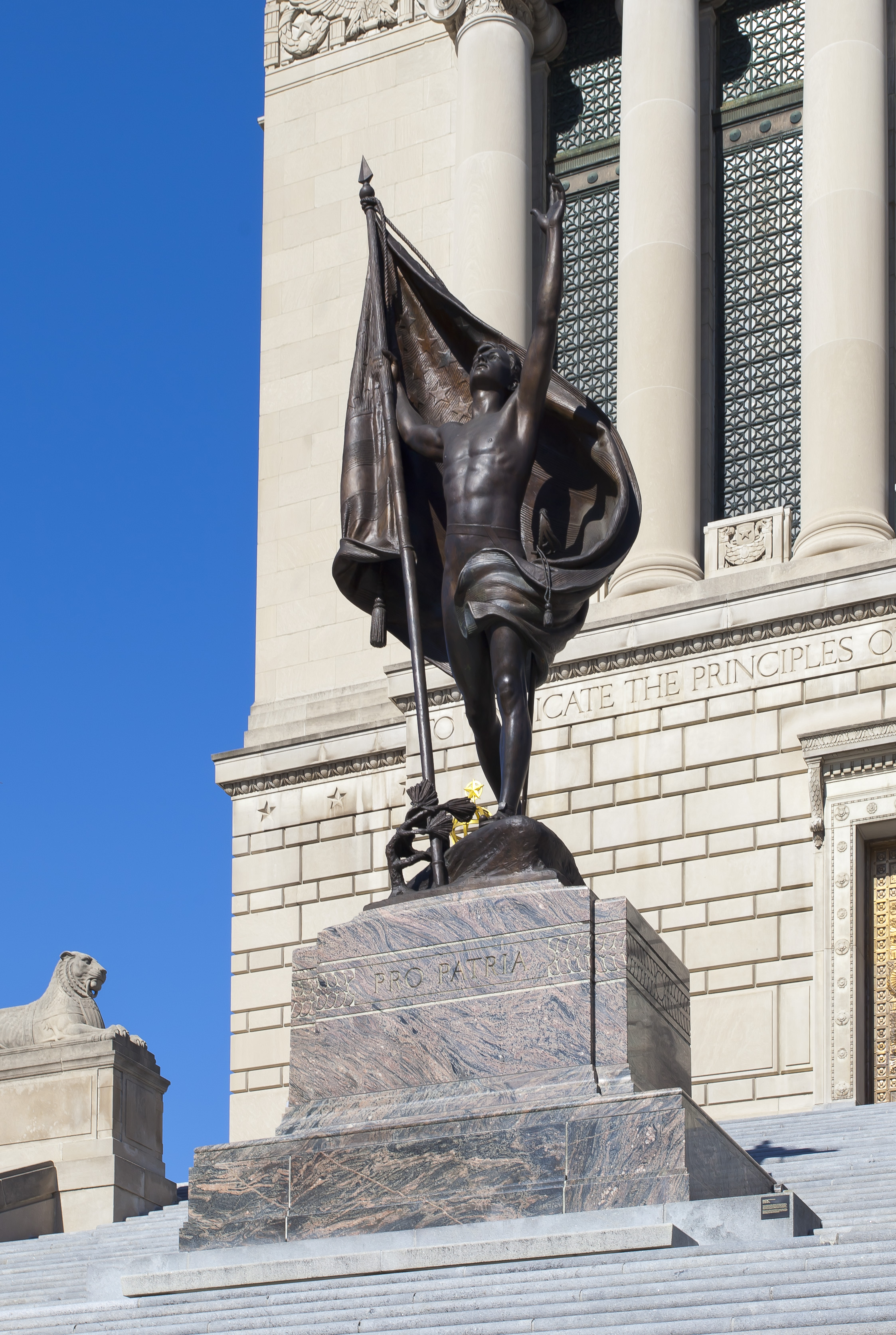 Indiana World War Memorial Building, Indianapolis, USA